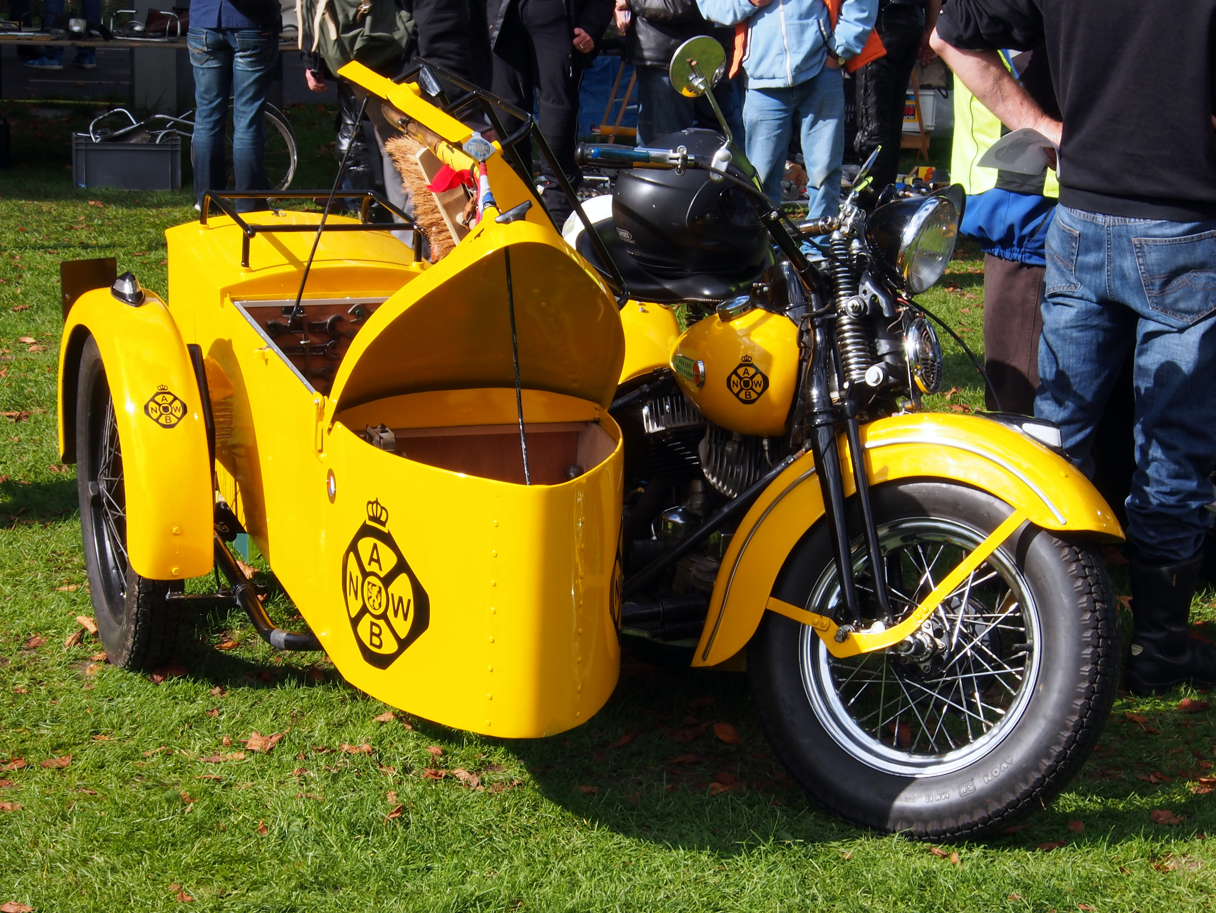 Hollandia's ANWB zijspan with Harley Davidson Liberator 750 CC.